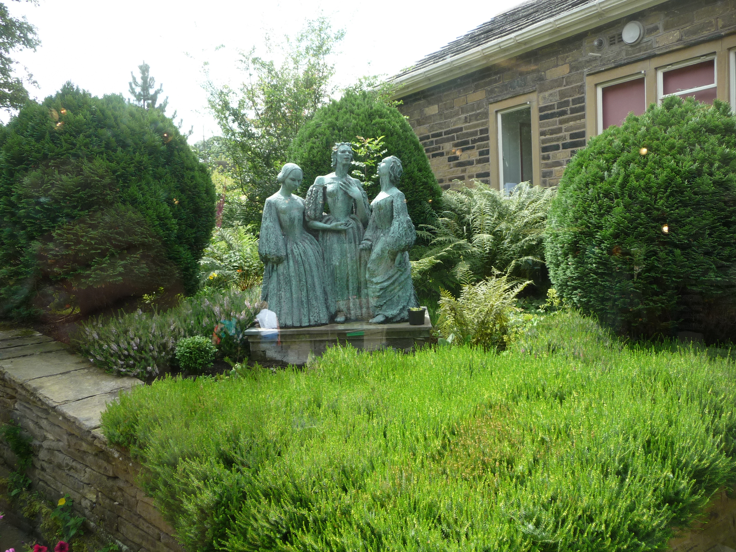 Bronte sisters in Haworth, England